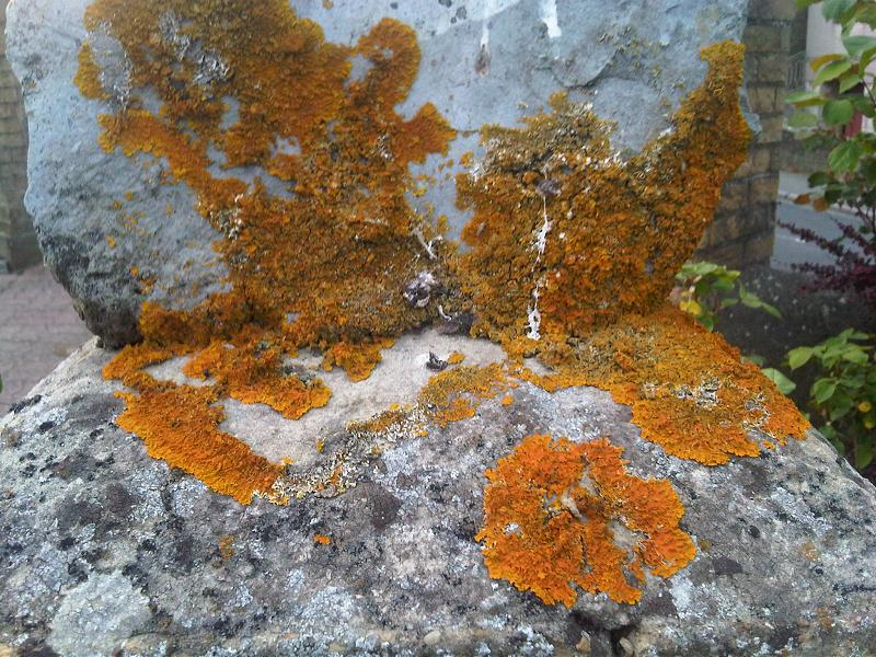 Common orange lichen, also known as yellow scale, maritime sunburst lichen and shore lichen (Xanthoria parietina) on Isle of Wight, England.